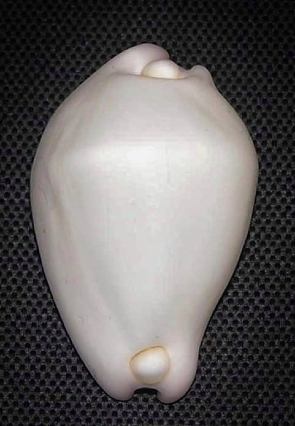 Photograph of the seashell Calpurnus verrucosus (Linnaeus, 1758)[1]; upper side / Origin of image: Own collection. New Caledonia. Photograph with edited details. Occurs in the shallow reefs of the Indo-Pacific and is locally common. ABBOTT, R. Tucker; DANCE, S. Peter (1982). Compendium of Seashells. A color Guide to More than 4.200 of the World's Marine Shells. New York: E. P. Dutton. p. 99. 412 pp. ISBN 0-525-93269-0